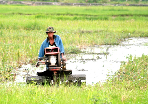 In Ilonggo areas, this hand tractor is known as 'kuliglig' and is used in the initial stage of ricefield preparation. This is Bayombong, Nueva Vizcaya.